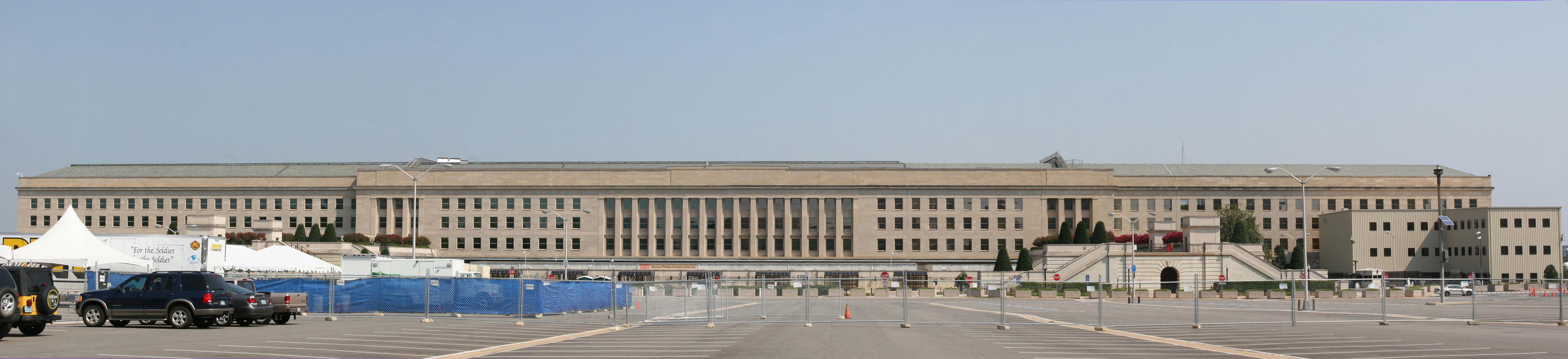 The Pentagon from the south parking lot, with preparations underway for 9/11 anniversary events (images stitched together for high res panorama)